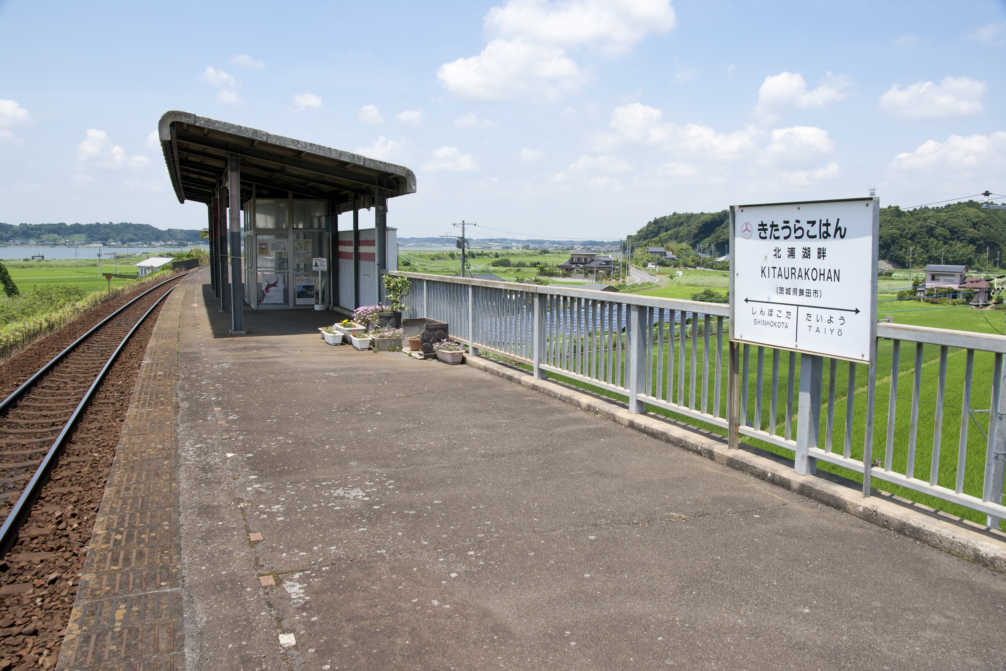 Kitaura-Kohan Station in Hokota City, Ibaraki Prefecture, Japan